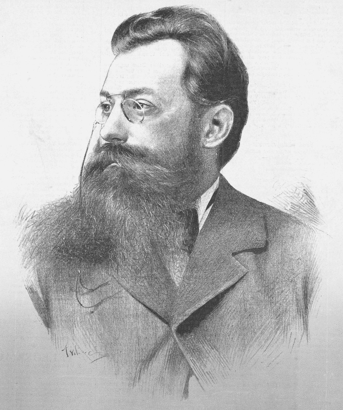 Portrait of Ladislav Quis, Czech writer.